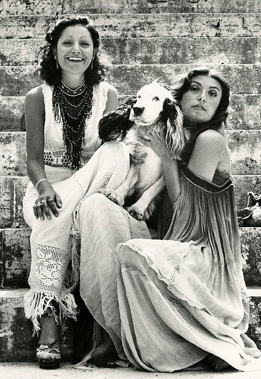 Mia Martini (on the left) and her younger sister Loredana Berté, both famous singers, sitting with a dog on the steps of the Palazzo della Civiltà Italiana in Rome.